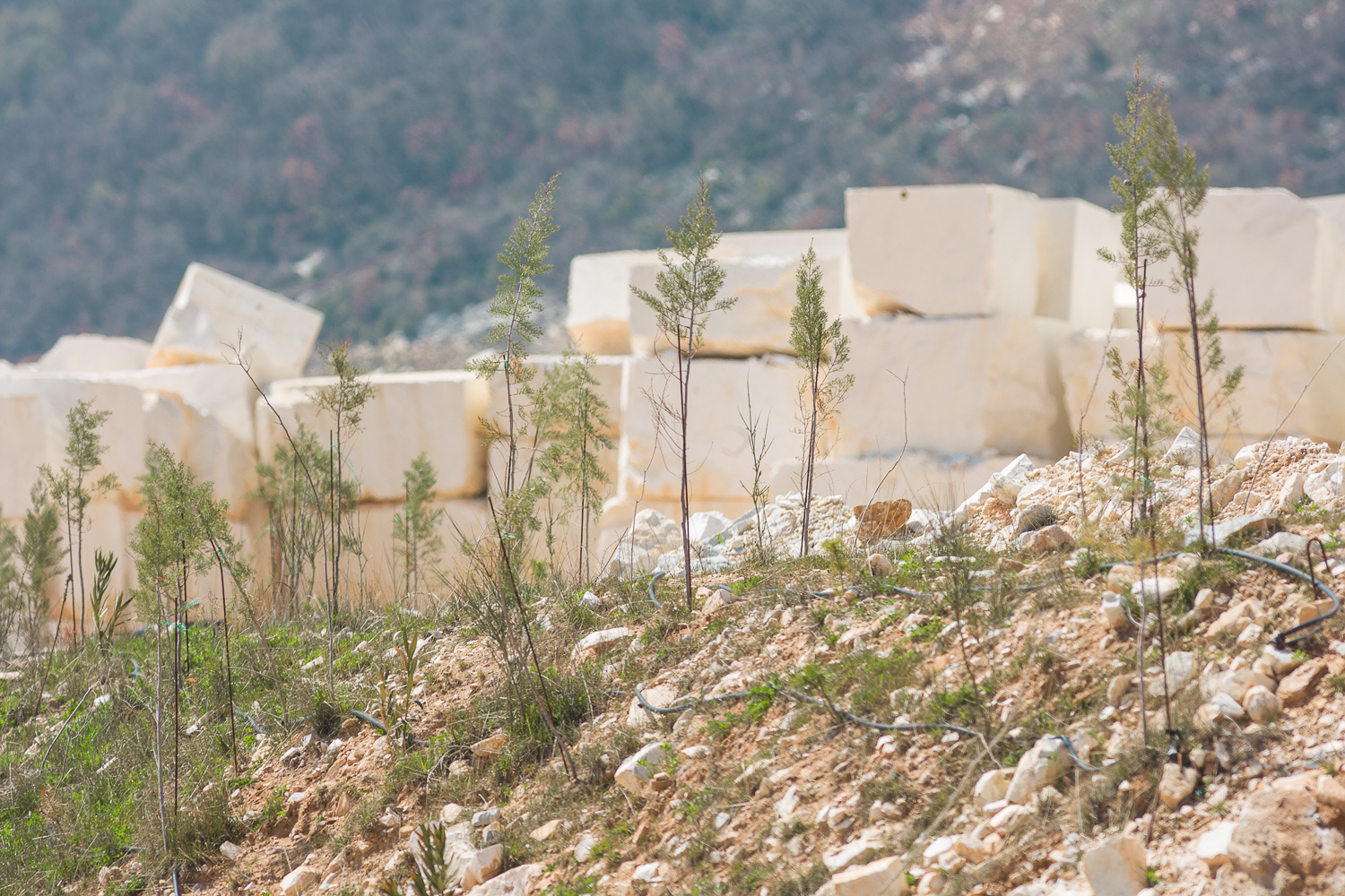 Marble Blocks From Northern Greece